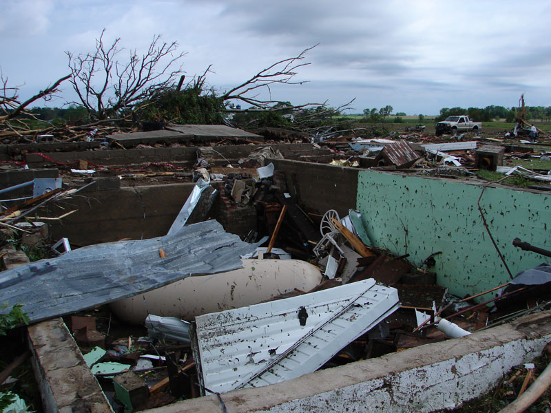 Tornado damage was widespread in Rush County, Indiana on June 3, 2008 including this destroyed structure. EF3 damage was observed in the town of Moscow, Indiana. Courtesy of NWS Indianapolis.